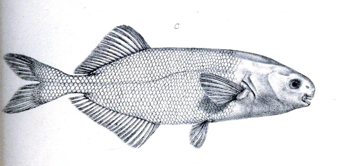 Stomatorhinus walkeri (Günther, 1867)